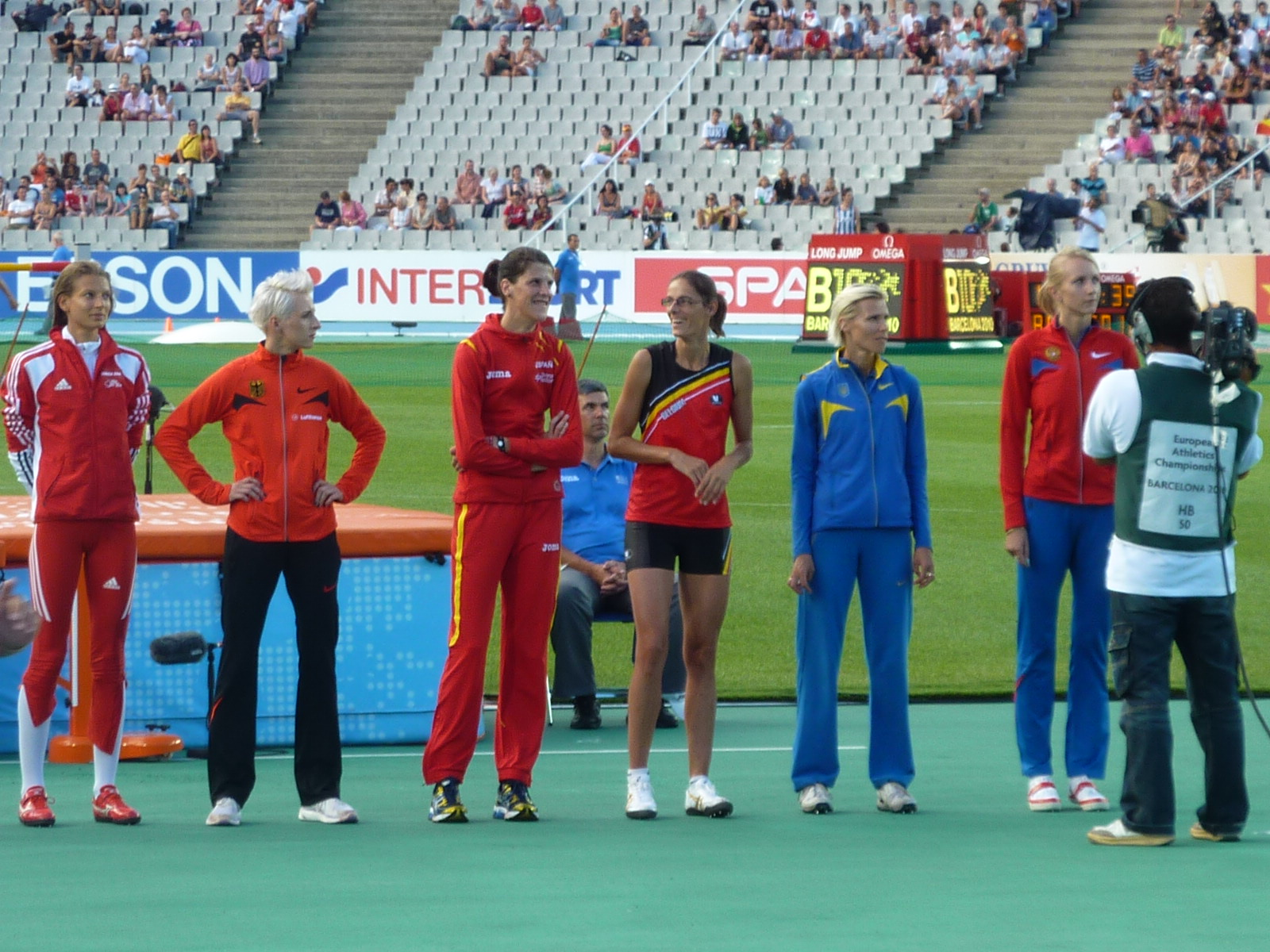 High jump final Barcelona 2010: Beatrice Lundmark, Ariane Friedrich, Ruth Beitia, Tia Hellebaut, Vita Styopina, Svetlana Shkolina